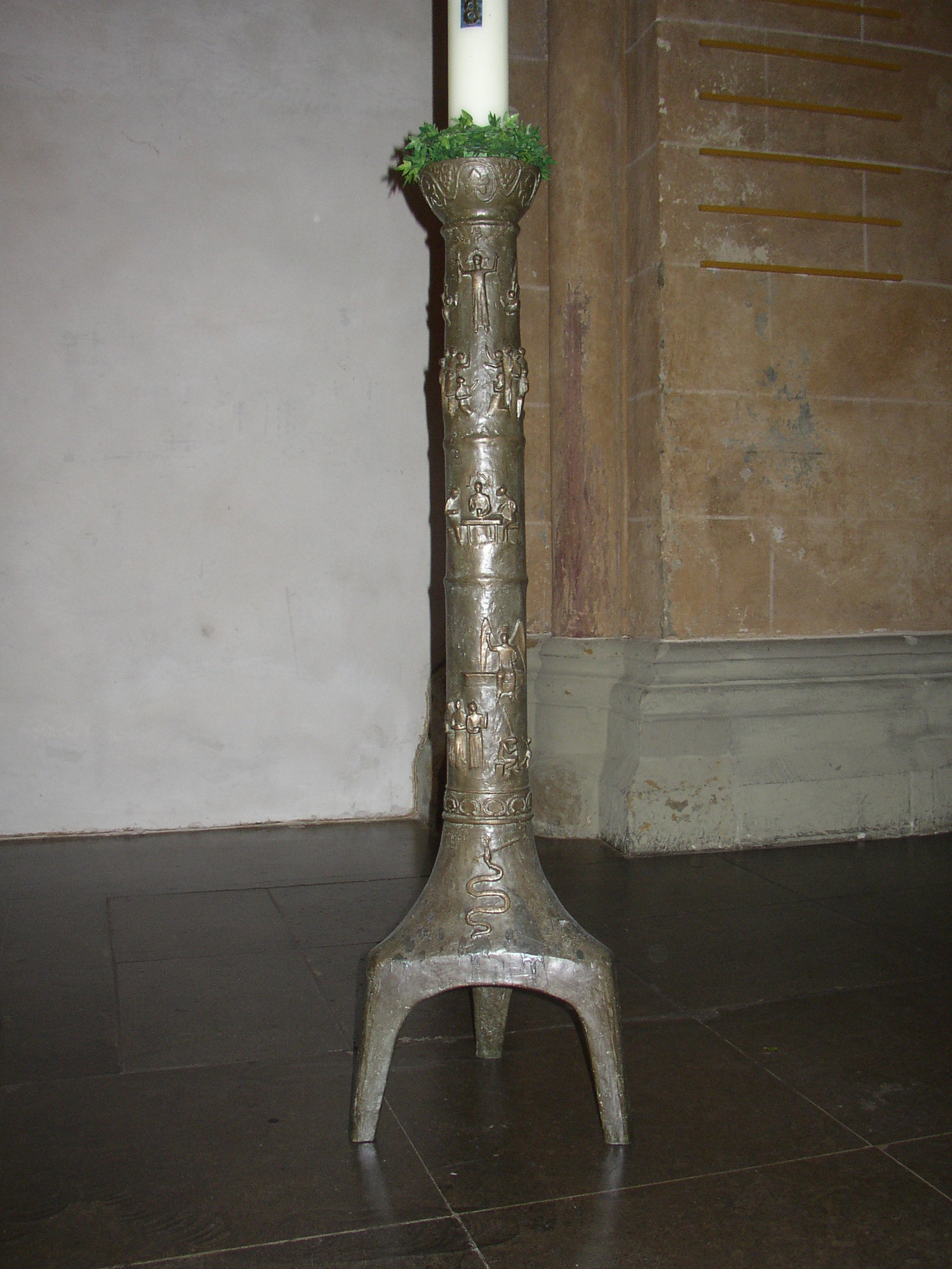 candle holder in St. Johannes church in Halle (Westfalen), county of Gütersloh, Germany